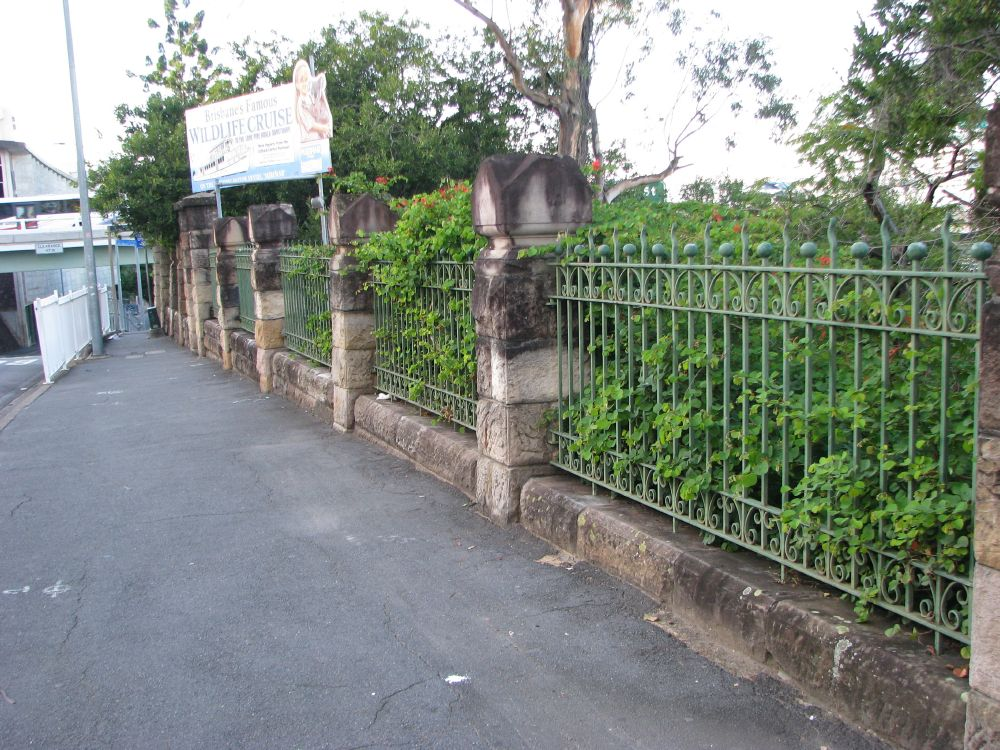 William Street and Queens Wharf Road retaining walls (2015)